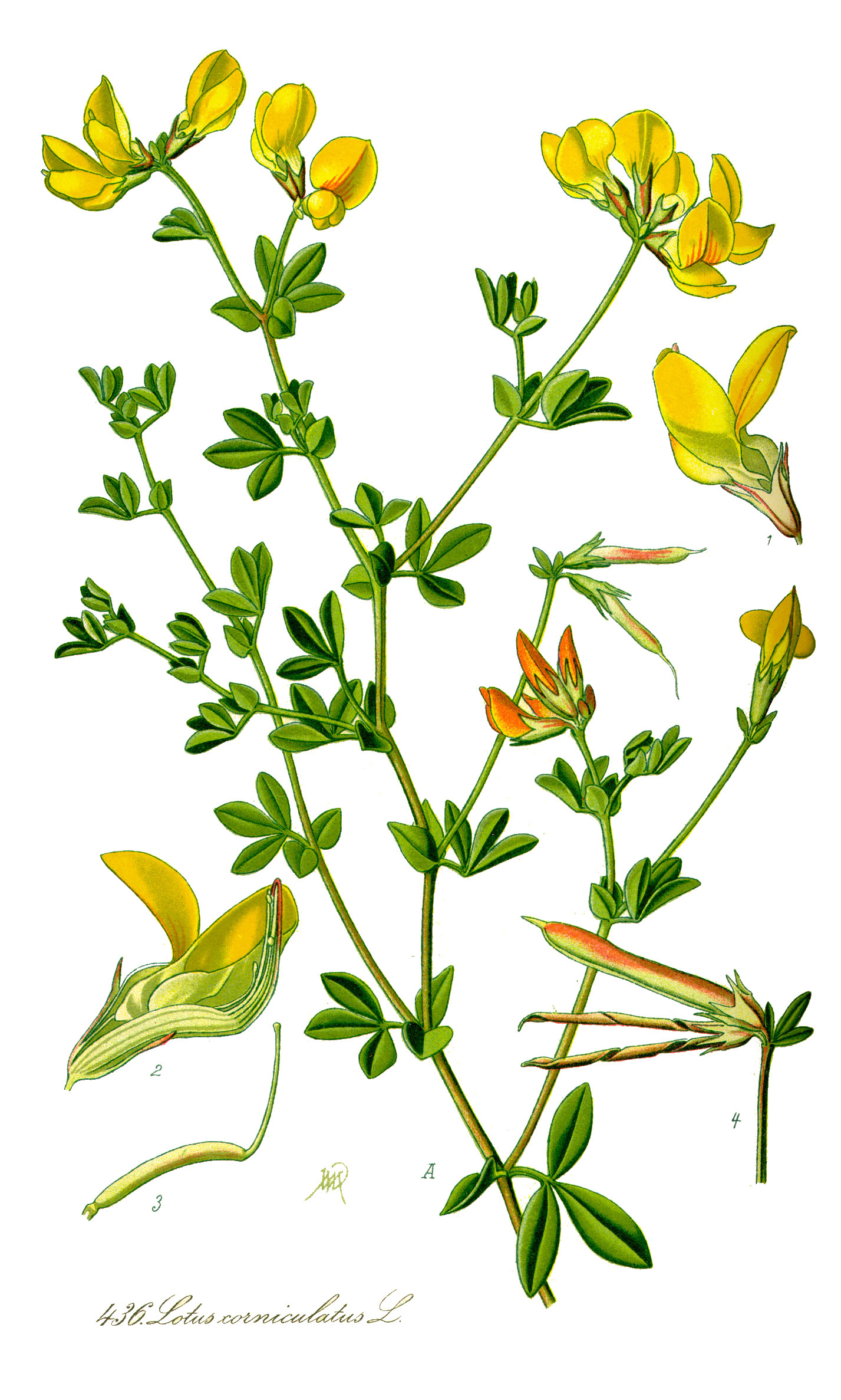 Name Lotus corniculatus Family Fabaceae